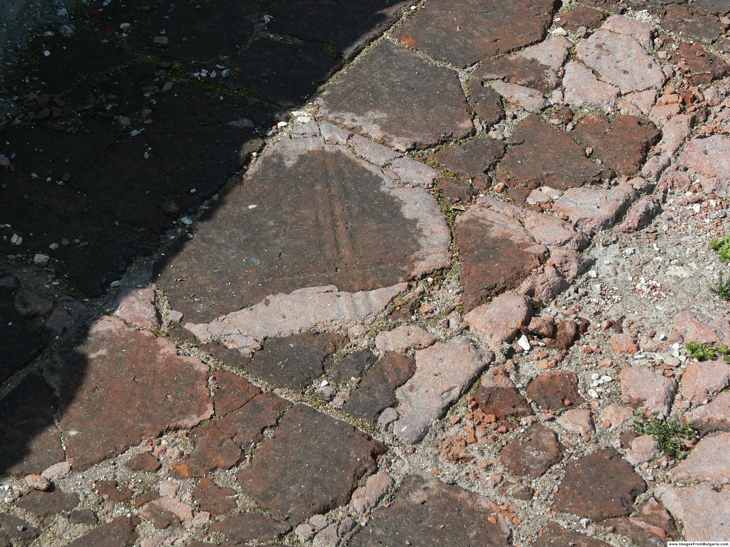 Perperikon — ancient Thracian town in the Rhodope Mountains